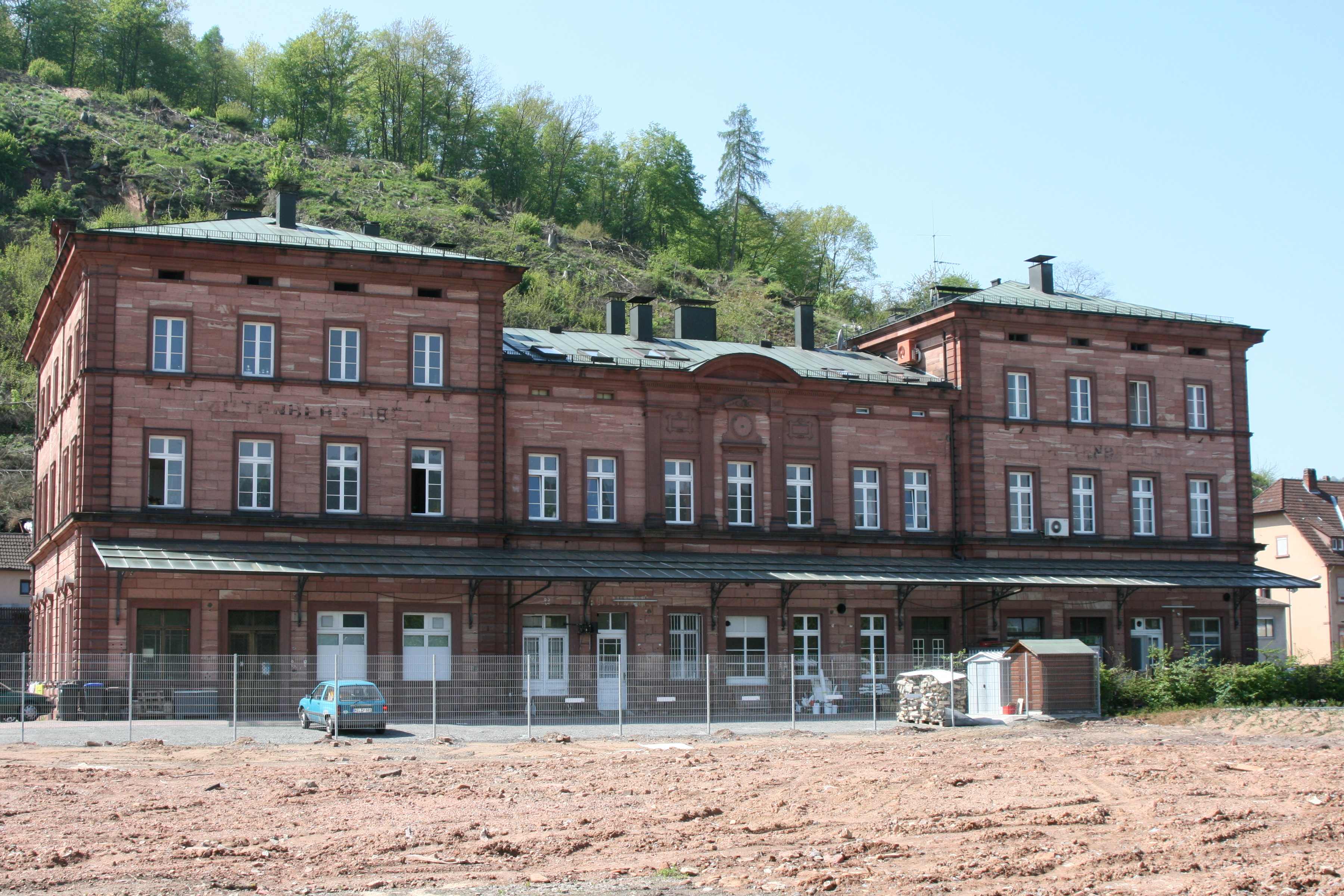 The former main railway station of Miltenberg, track side